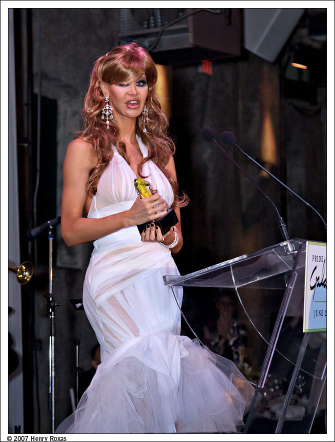 Nina Arsenault receives her award of Unstoppable! Held at the Fermenting Cellar in the Historic Distillery District on June 20, 2007. The gala, the third in the history of Pride Toronto recreated Truman Capote?s 1966 Black and White Masquerade Ball and hosted by Mary Walsh. Programme of the night included a prensentation of awards to various individuals, a silent auction, musical performances, introduction and acceptance speeches, and of course an abundance of food and drinks.